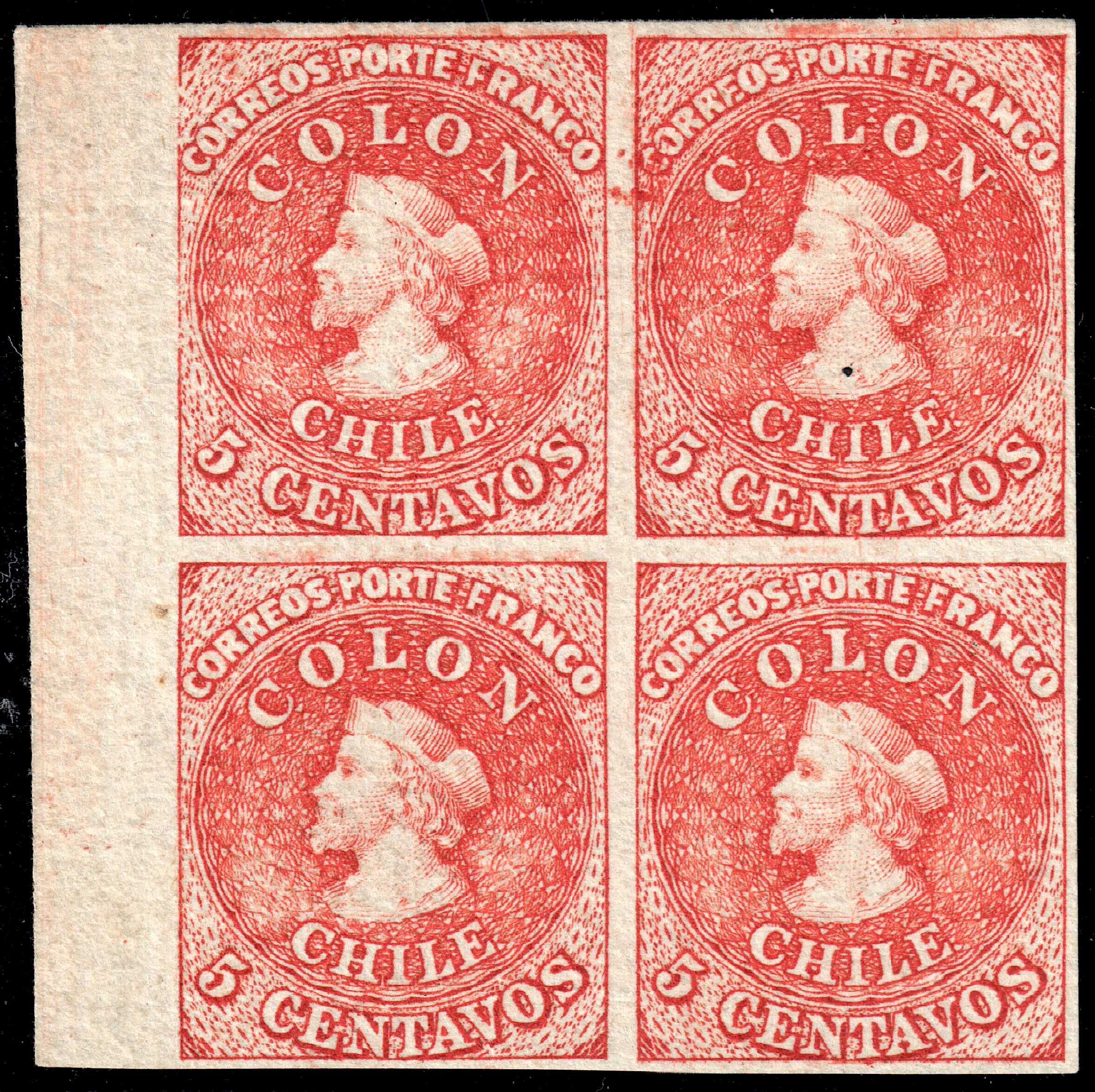 Chile 1870 5c reprint block of four, rose red on ribbed unwatermarked paper.